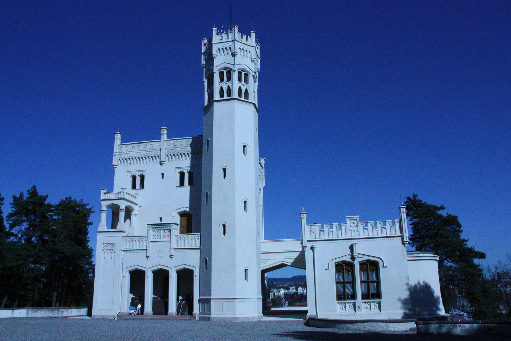 The Oscarshall summer palace in Oslo